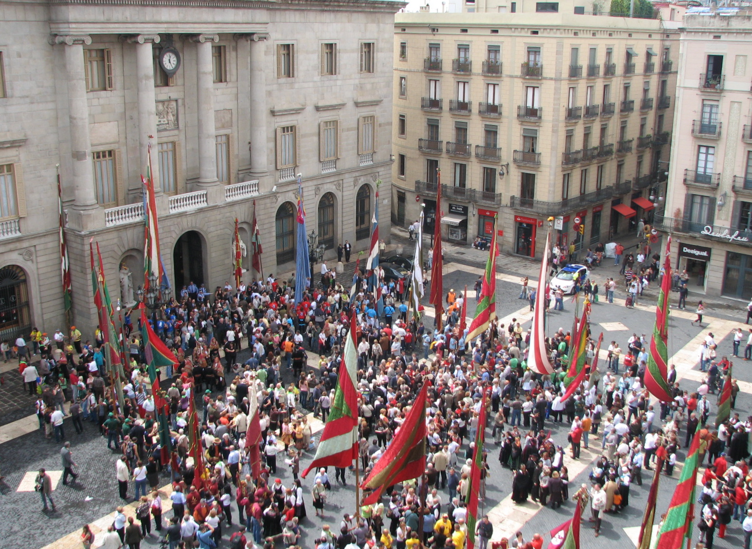 An event held at Plaça de Sant Jaume in the center of Ciutat Vella, Barcelona.